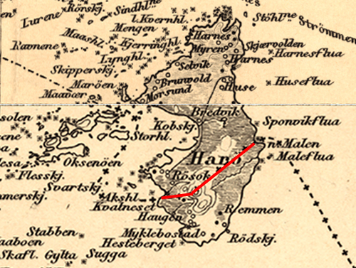 Border on island Harøy, Møre og Romsdal, Norway